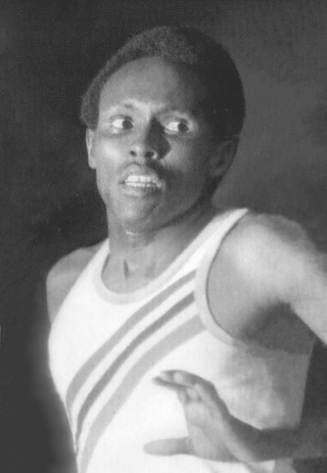 1975 Press Photo Filbert Bayi, Olympic Invitational Track and Field Winner